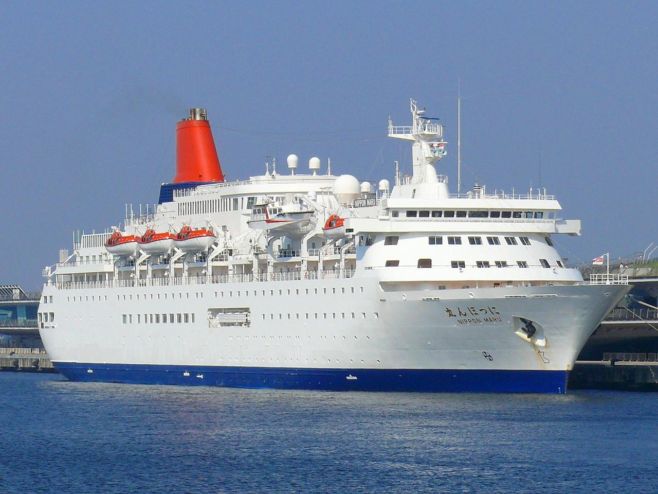 "Nippon Maru" who anchors at "Osanbashi Pier" of the Yokohama port.(Yokohama City, Japan)).